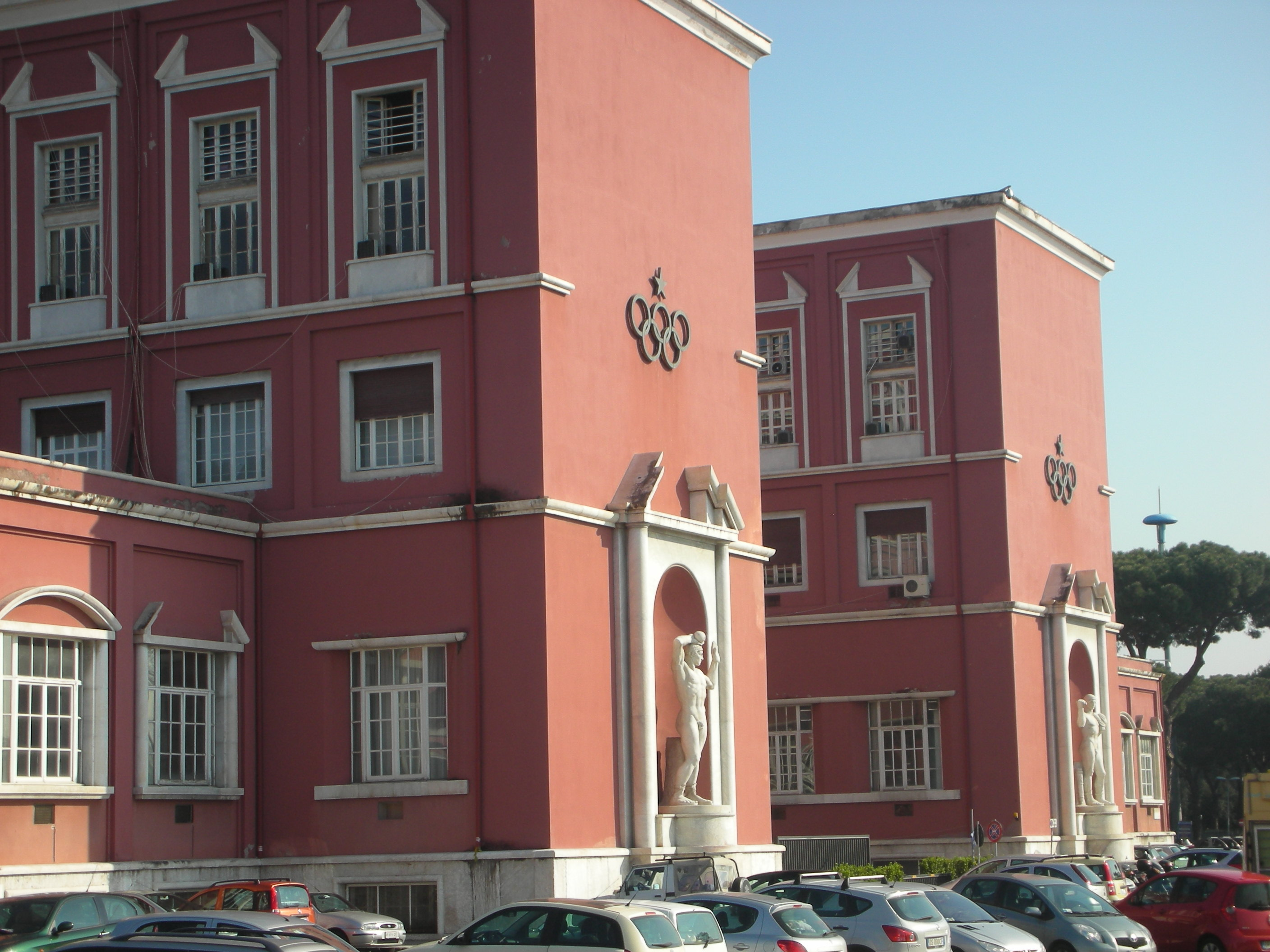 Accademia della Farnesina dal lato del Fiume Tevere